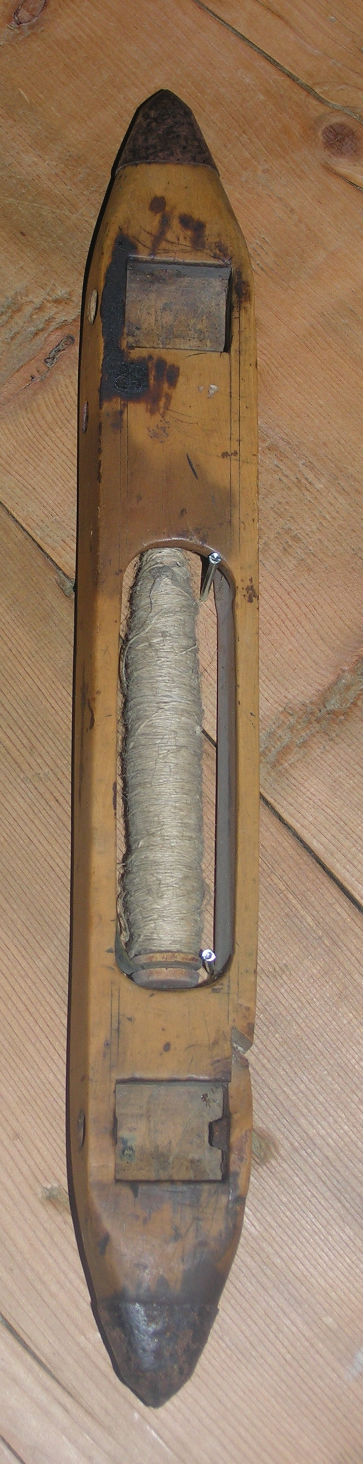 Shuttle with bobin